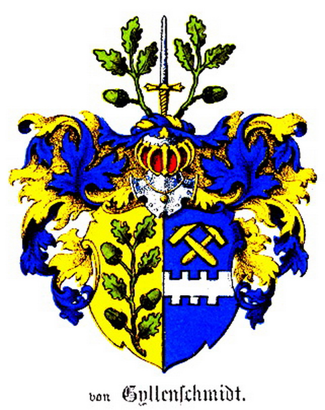 Coat of arms of Gyllenschmidt family.